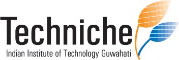 The official logo of Techniche.